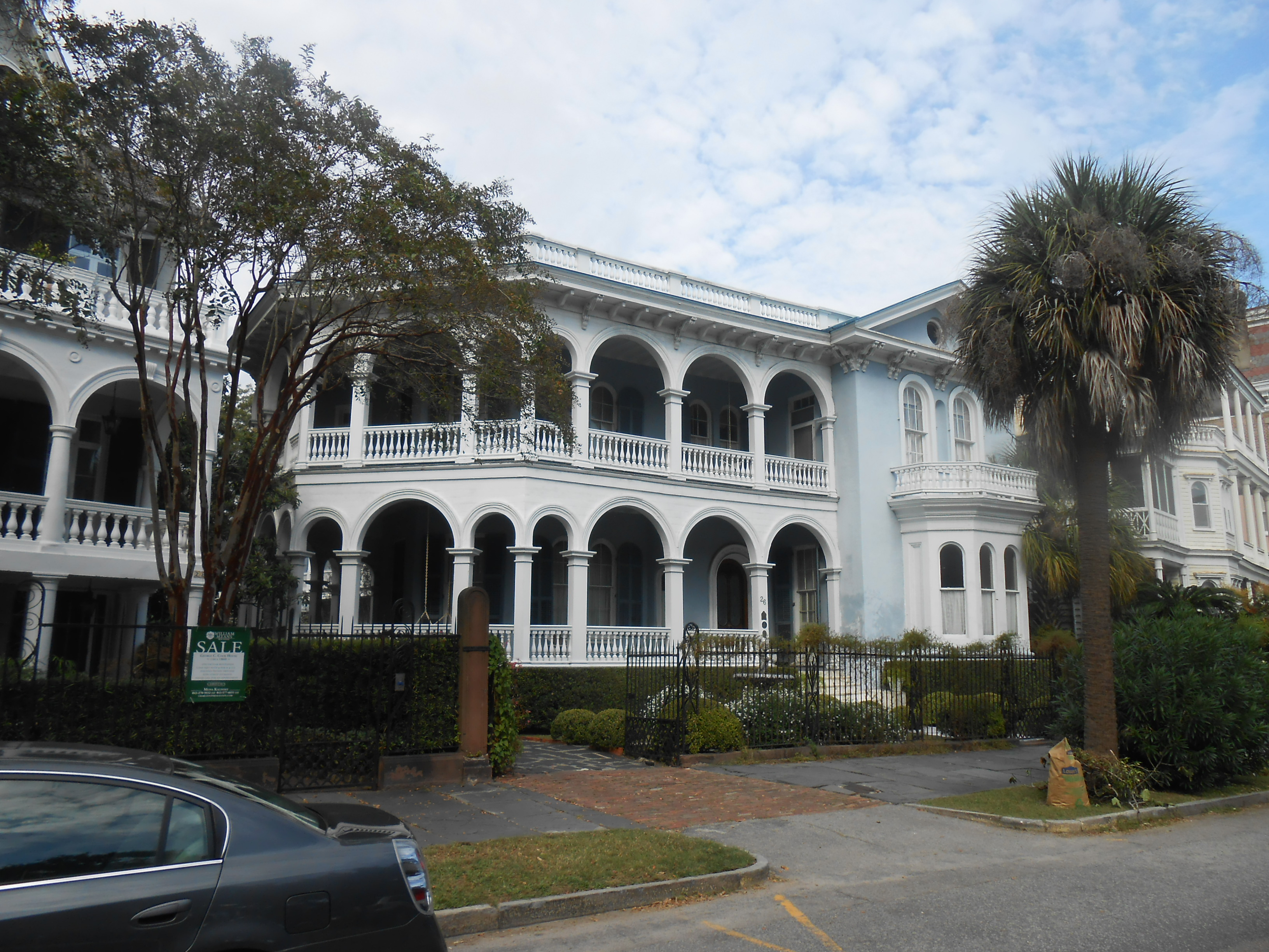 The Col. John Ashe, Jr. House at 26 South Battery overlooks White Point Garden in Charleston, South Carolina.